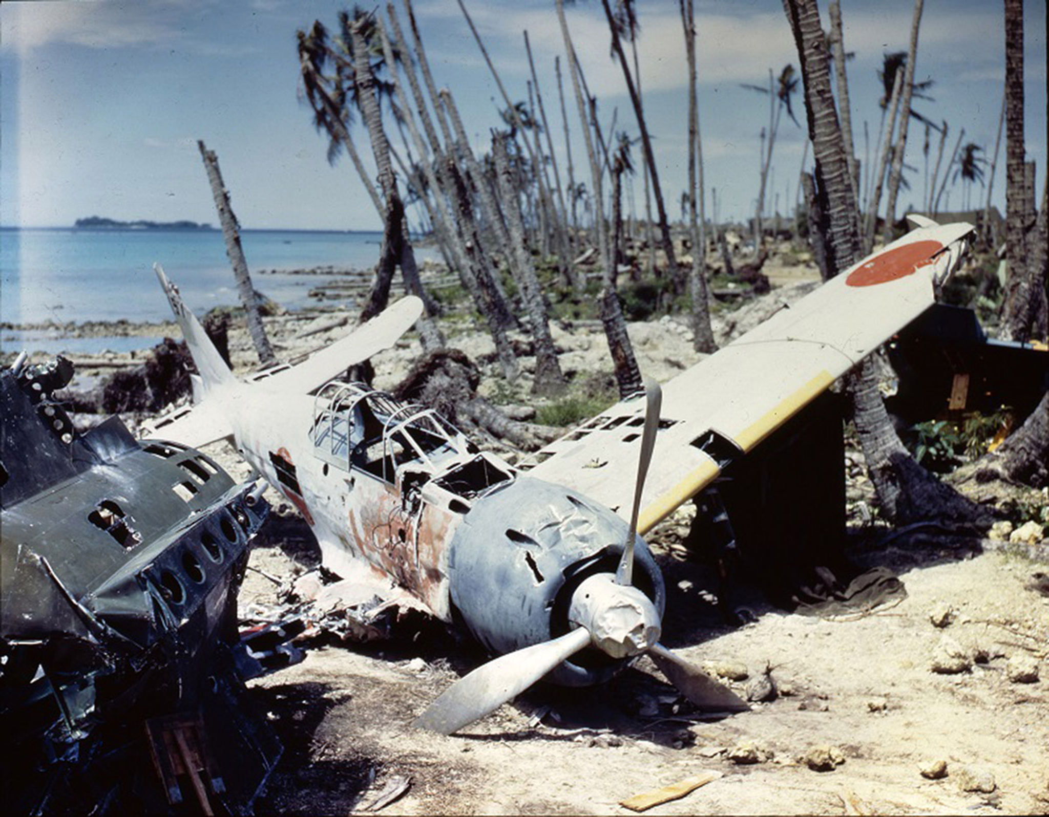 A Japanese Mitsubishi A6M3 Zero ("T2-157") abandoned at Munda Airfield (Central Solomon Islands), after the Allied Invasion, September 1943.